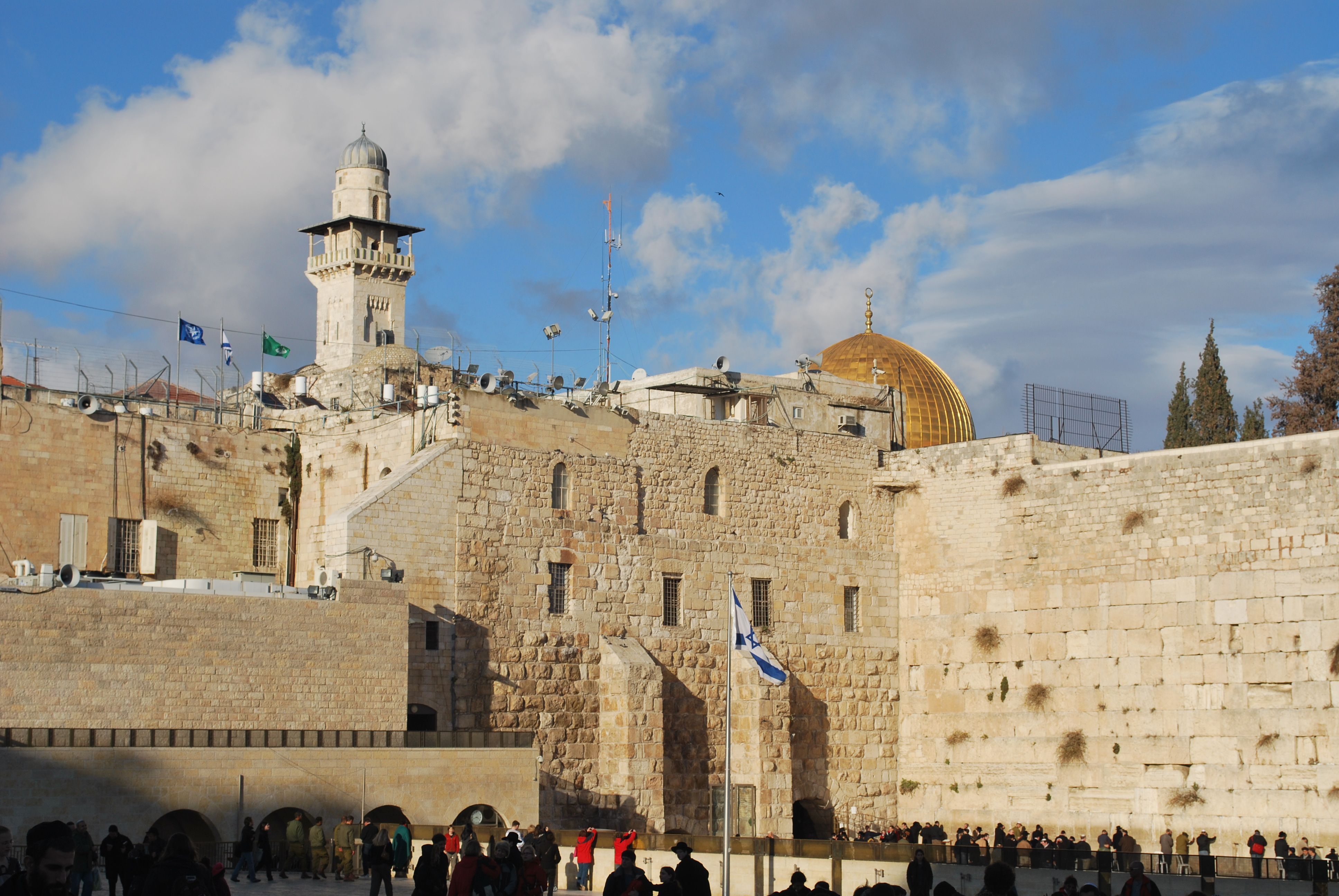 A long time ago (can't believe it's been almost a year) Avi & me were walking down the streets of Jerusalem, mostly being lost. We managed to find the old city and the Western Wall, but then got lost again. Jerusalem